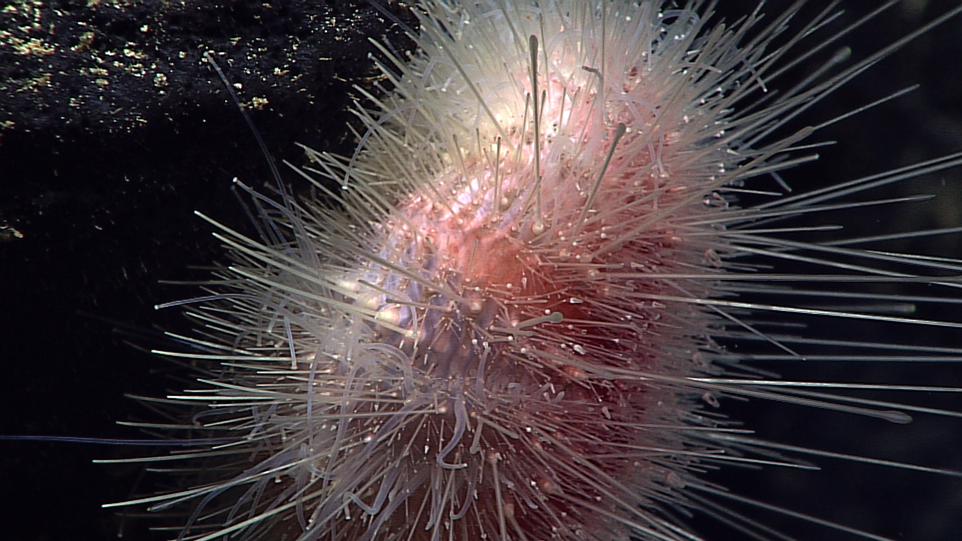 A pinkish white urchin closeup (Echinothurioida). Image ID: expn5602, Voyage To Inner Space - Exploring the Seas With NOAA Collect Location: Hawaii, Niihau Photo Date: 20150913T194047Z Credit: NOAA Office of Ocean Exploration and Research, 2015 Hohonu Moana